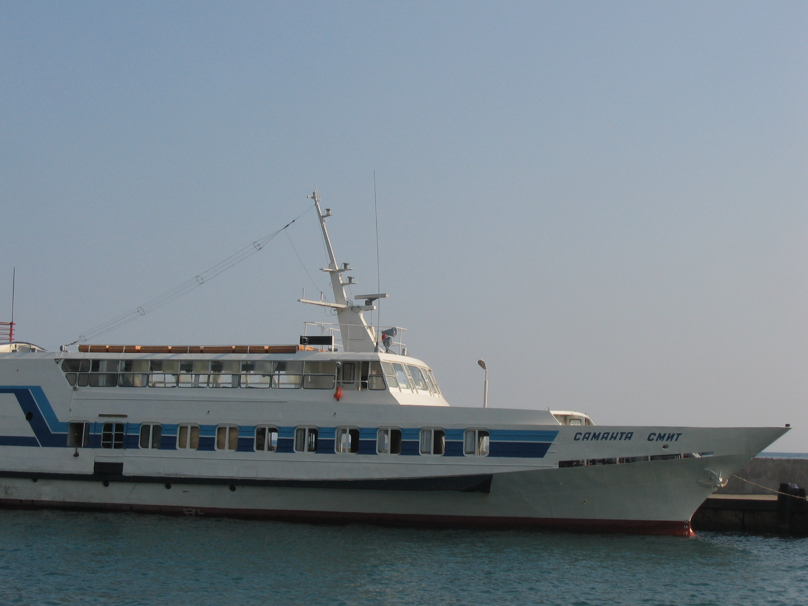 Samanta Smit, a ship in Yalta